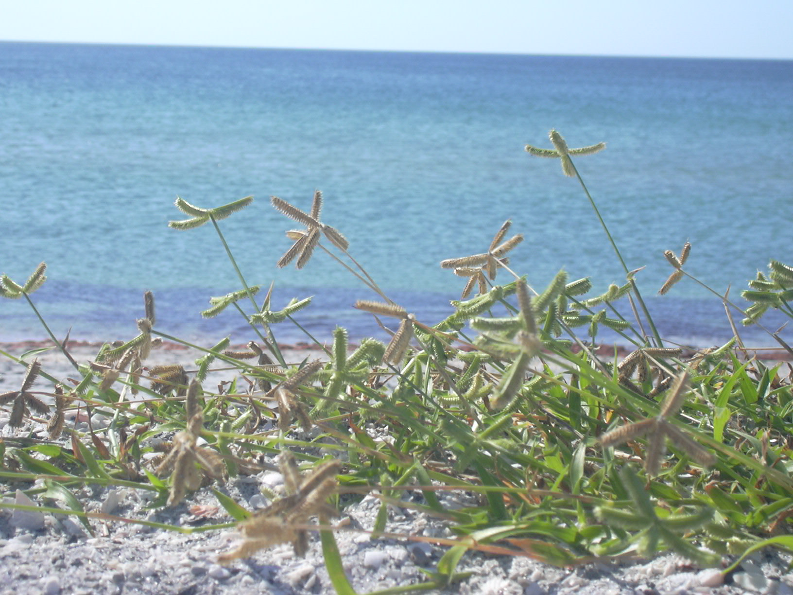 Dactyloctenium aegyptium (habit). Location: Florida, Venice Beach